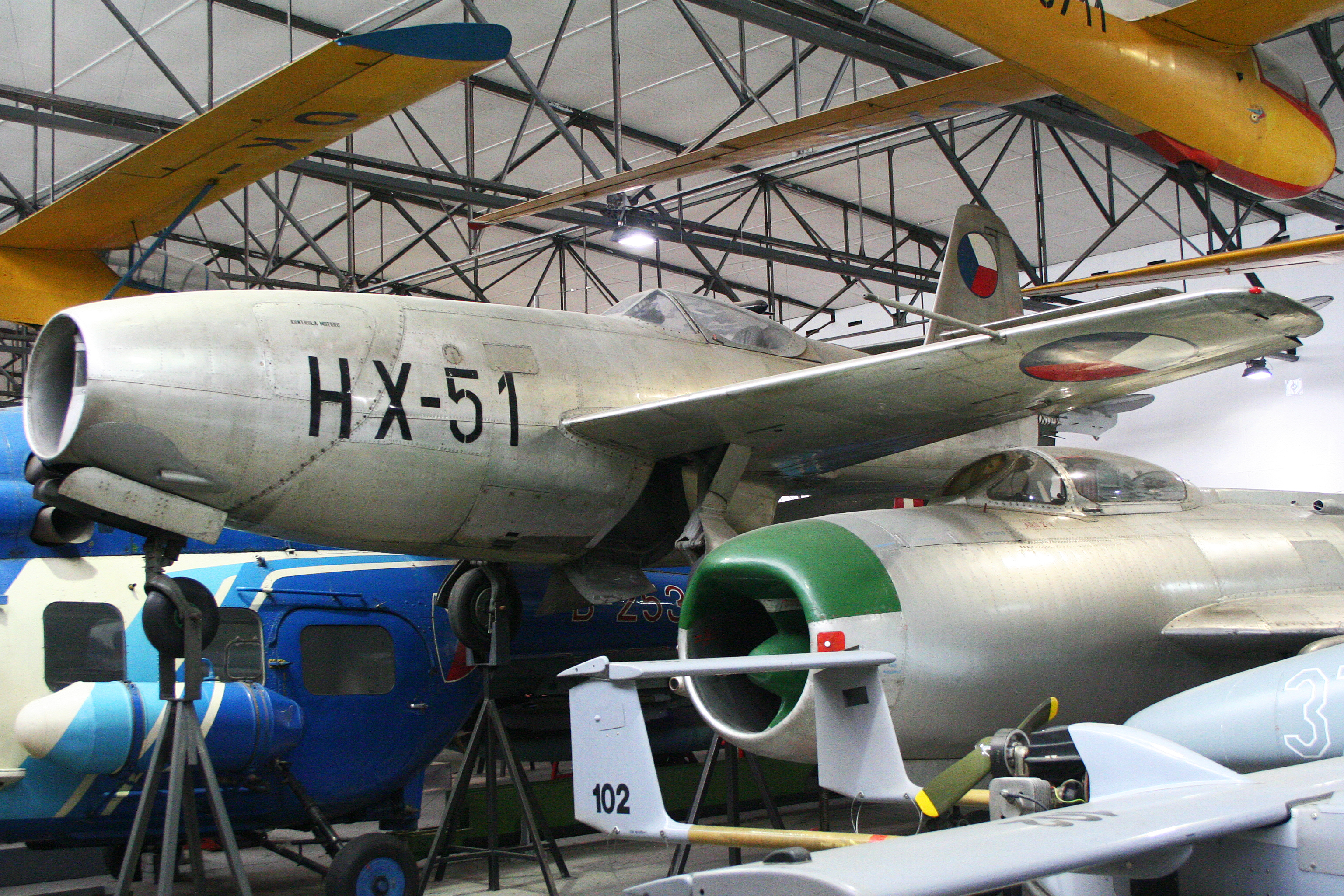 msn 10101. On display in the Post War Hangar, Kbely museum, Czech Republic. 07-10-2012